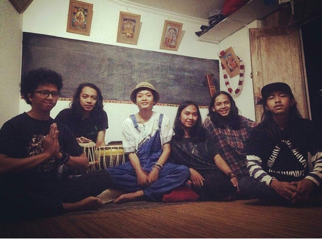 Log sanskrit student